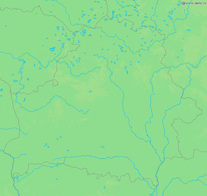 Map of Belarus. Bounding box West 23°, South 51°, East 33°, North 56.6°. Center at 53°48′00″N 28°00′00″E / 53.80000°N 28.00000°E.